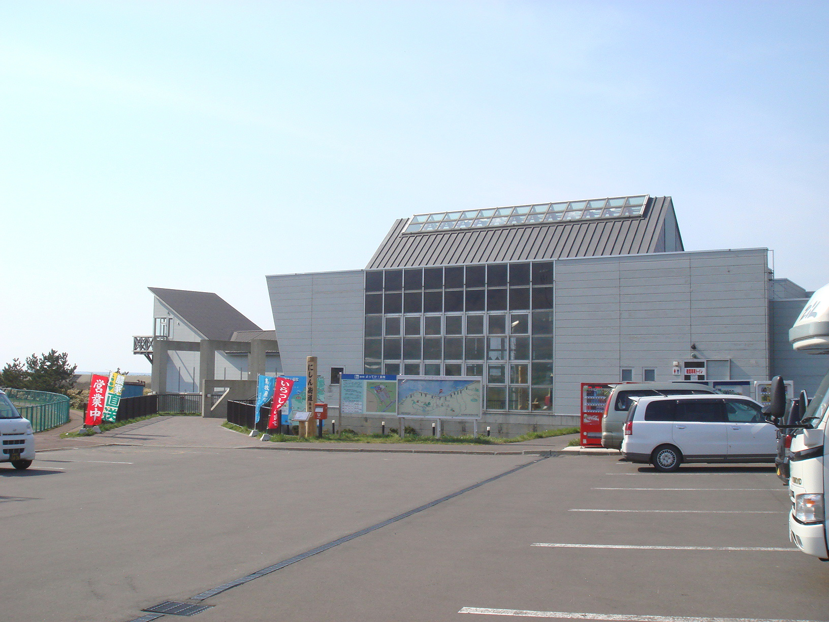 Michinoeki(Roadside Station) Yotteke! Shimamaki (Shimamaki, Hokkaidō)